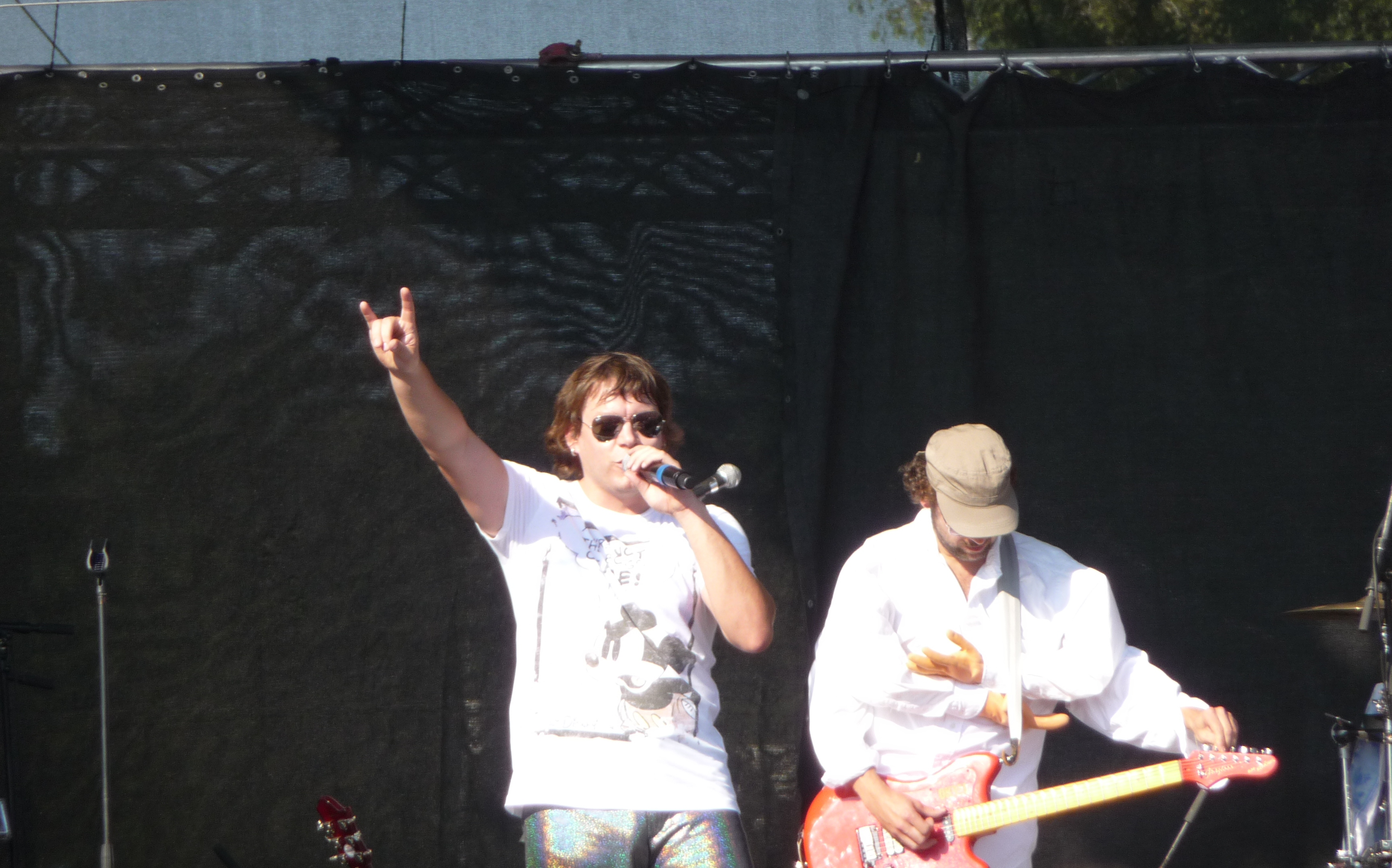 Monkey Business, festival Moravské hrady.cz, Veveří Castle -10 -5 -3 -2 ◄ ► +2 +3 +5 +10